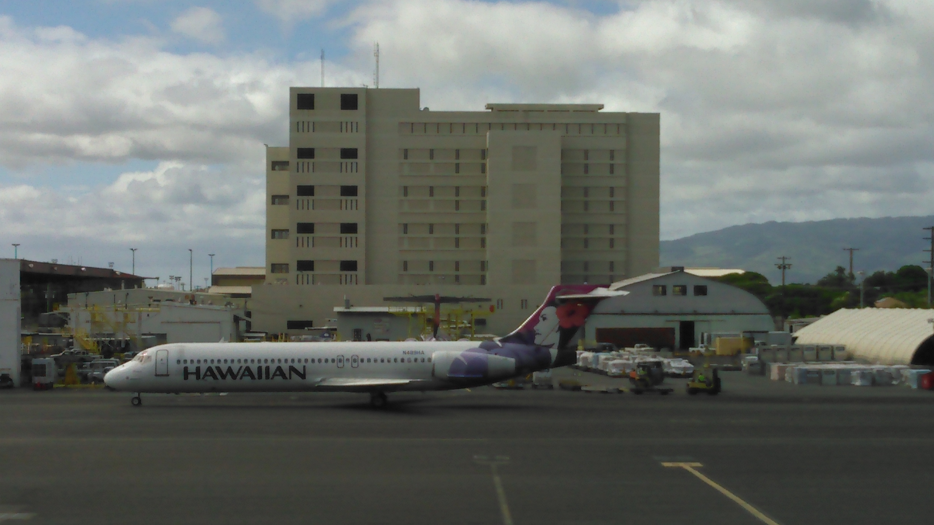 Federal Detention Center, Honolulu as seen from Gate 55 of the Inter-island Terminal at the Honolulu International Airport.